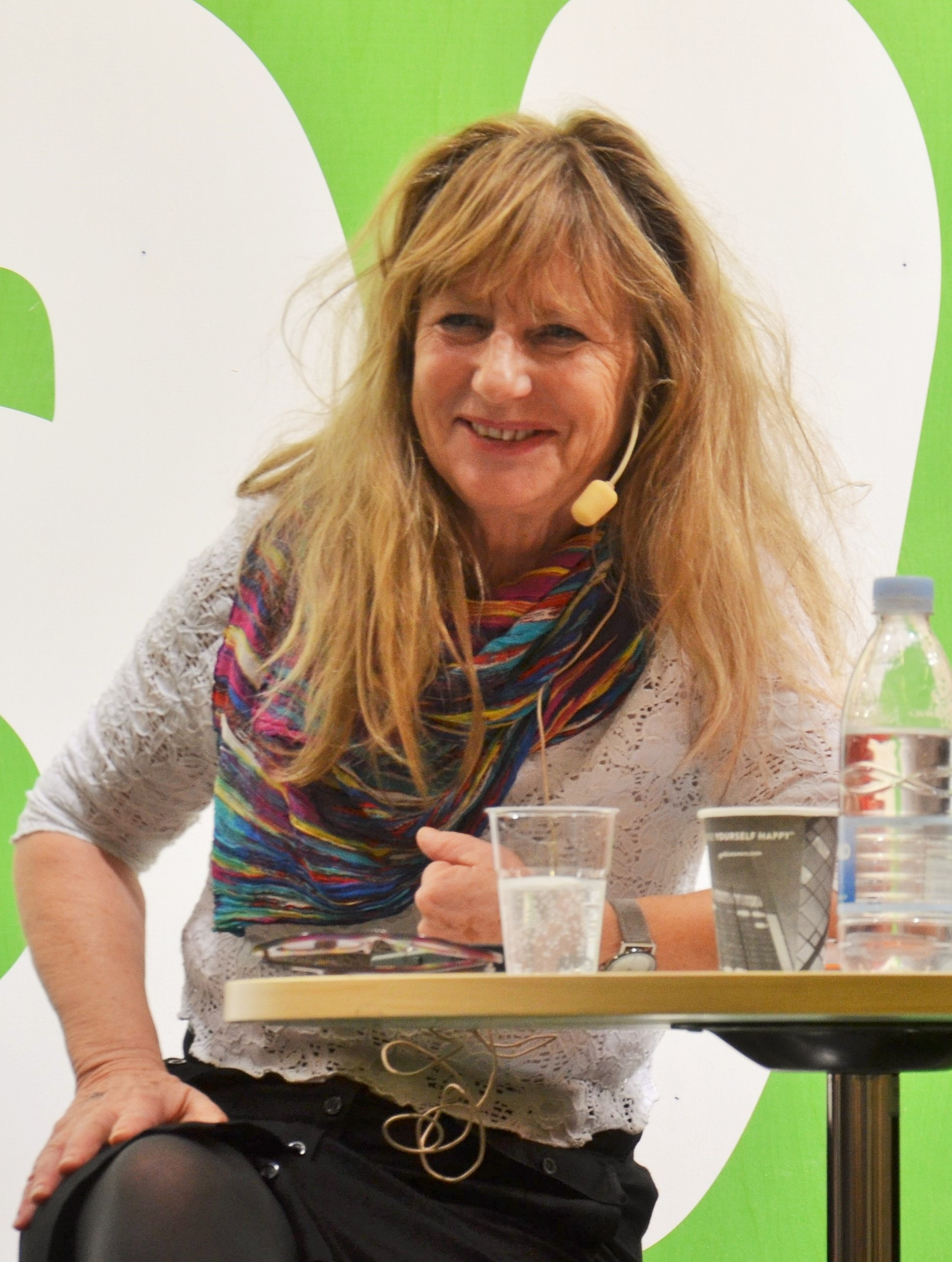 Lilian Brögger